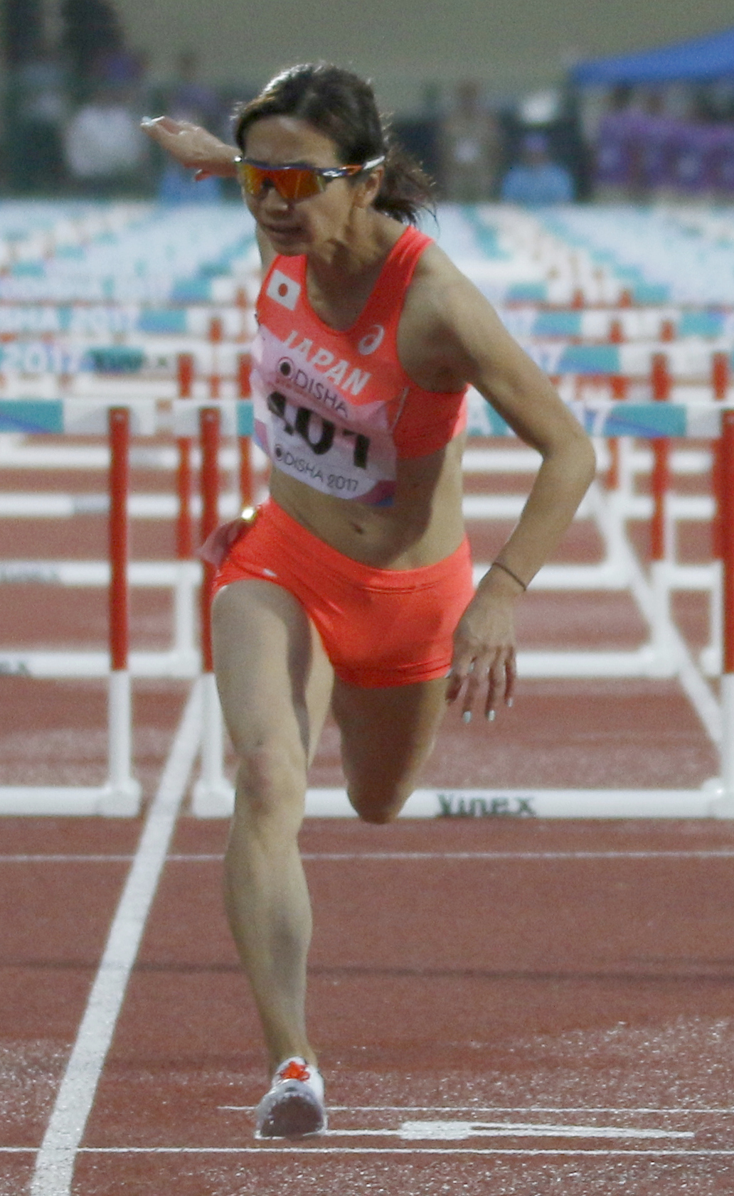 from the 22nd Asian Games in Odisha. 2017 Asian Athletics Championships. 6 to 9 July 2017 at the Kalinga Stadium in Bhubaneswar